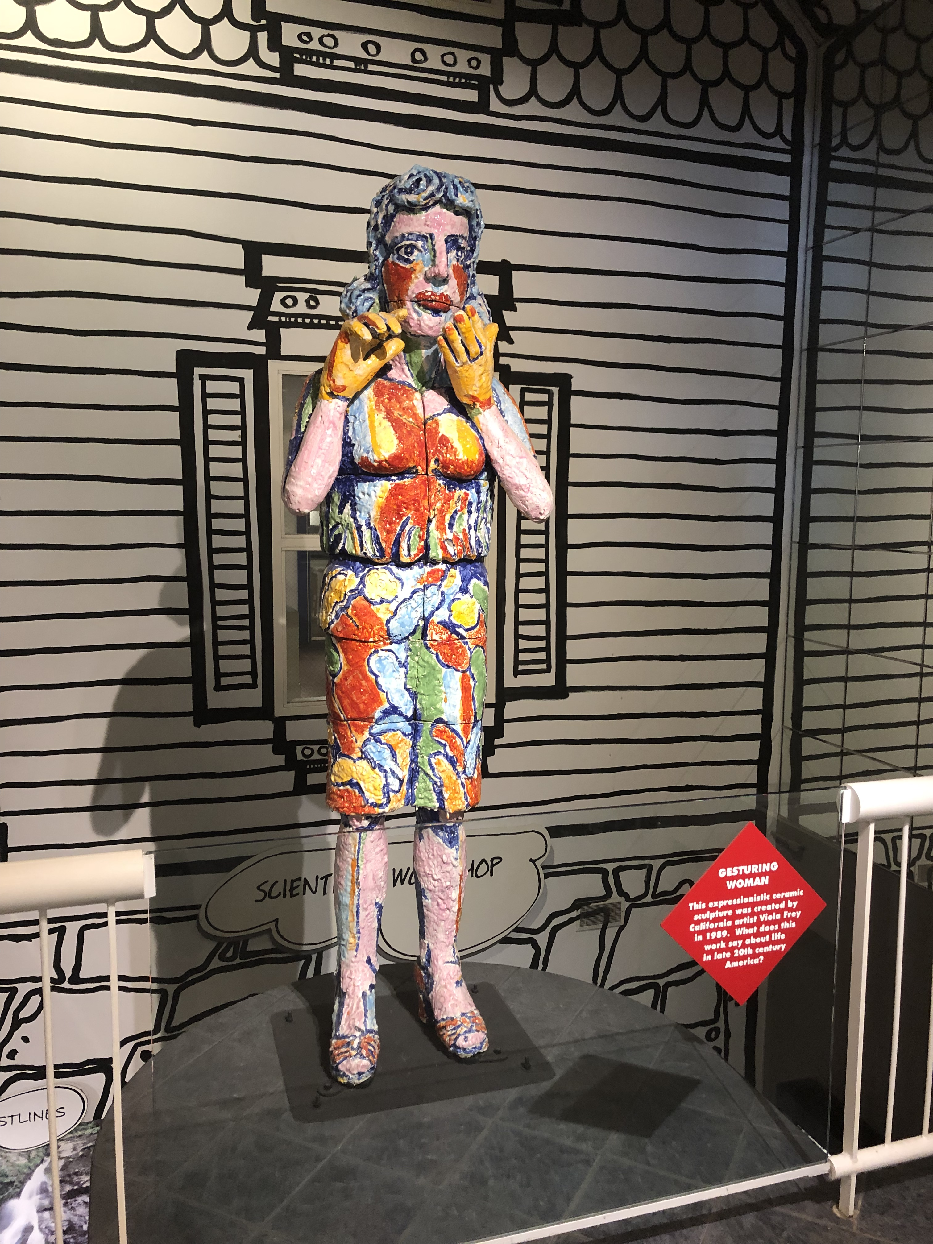 Image of Gesturing Woman by Viola Frey, located at the Museum of Arts and Sciences in Macon, GA.